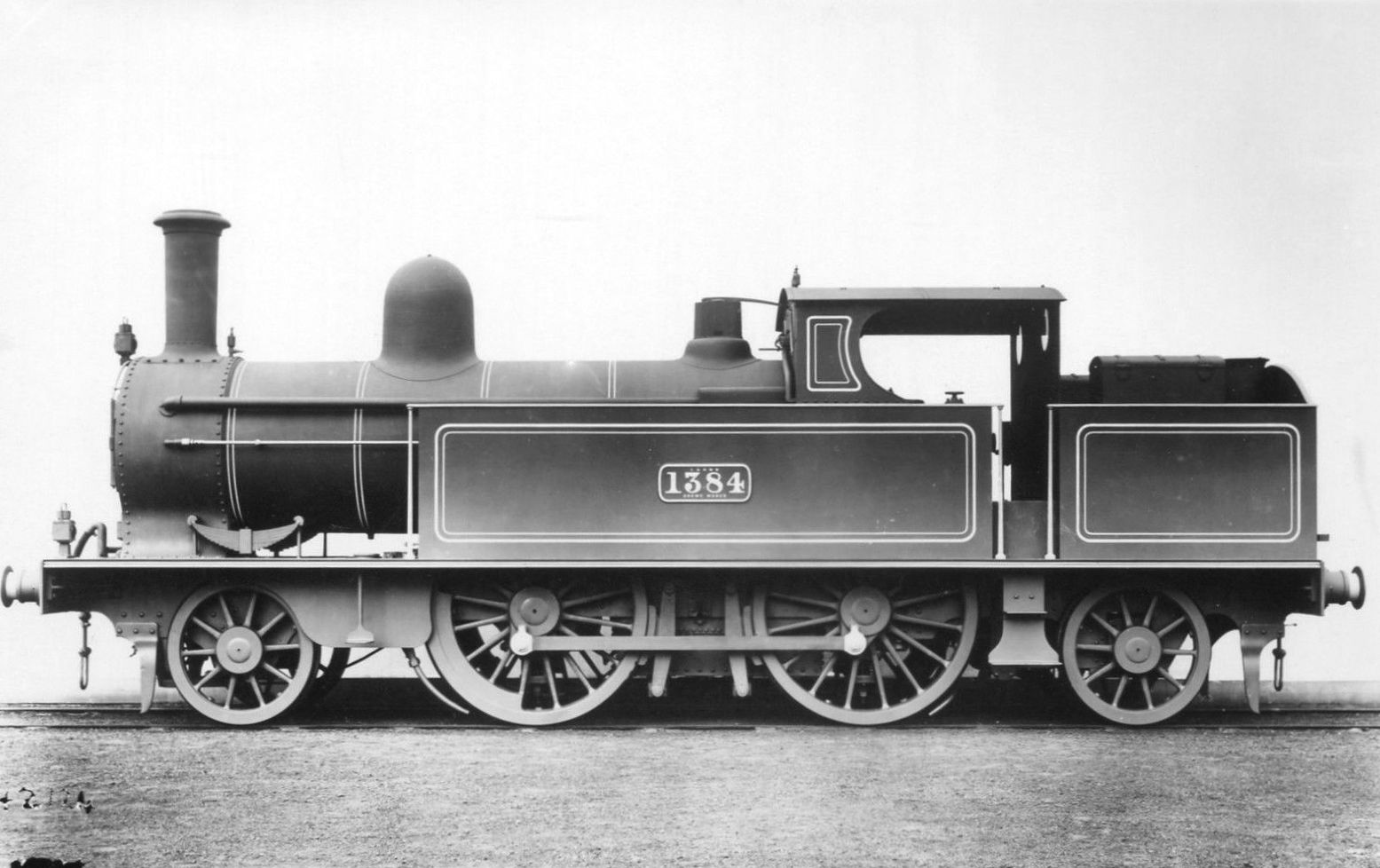 Photograph LNWR engine No. 1384, 5ft 6in Tank